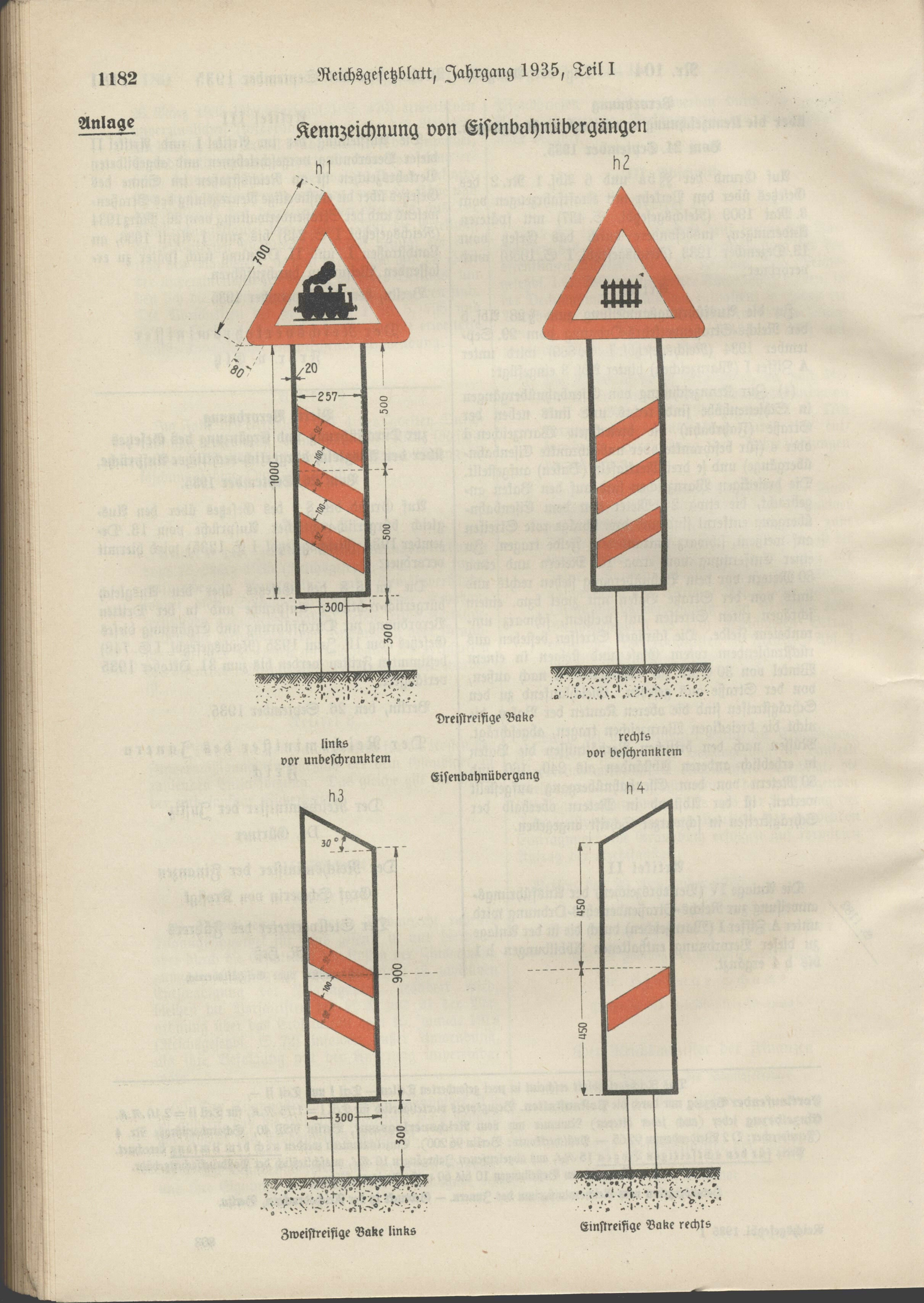 Scan from the Imperial Law Gazette of Germany, 1935, part 1